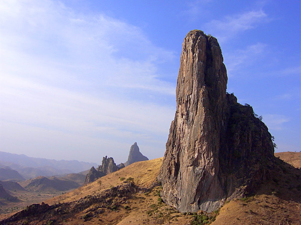 Rhumsiki Peak in Cameroon's Extreme North Province. Taken by uploader with Kodak CX6200 digital camera.